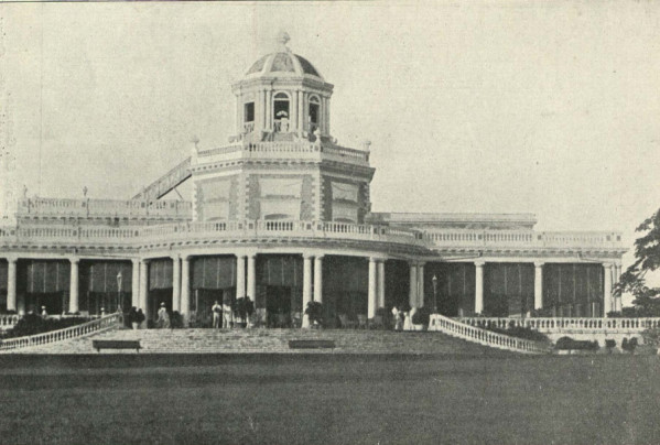 The extensive grounds of this Club on the Adyar River comprise golf links, a ride, tennis and badminton courts, &c. During the season dances are held here.